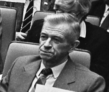 Image of Estonian actor, director and politician Kaljo Kiisk (1925-2007)